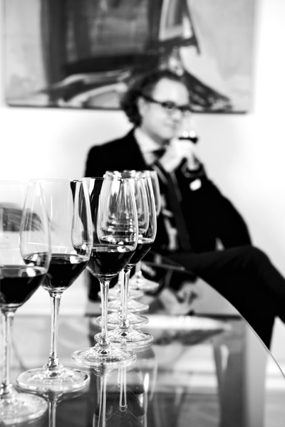 Alexandre Schmitt in 2019